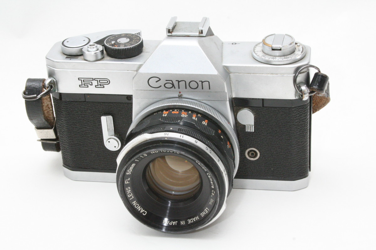 The picture shows a Canon FP Camera, this is a Single Lens Reflex Camera from the 60s